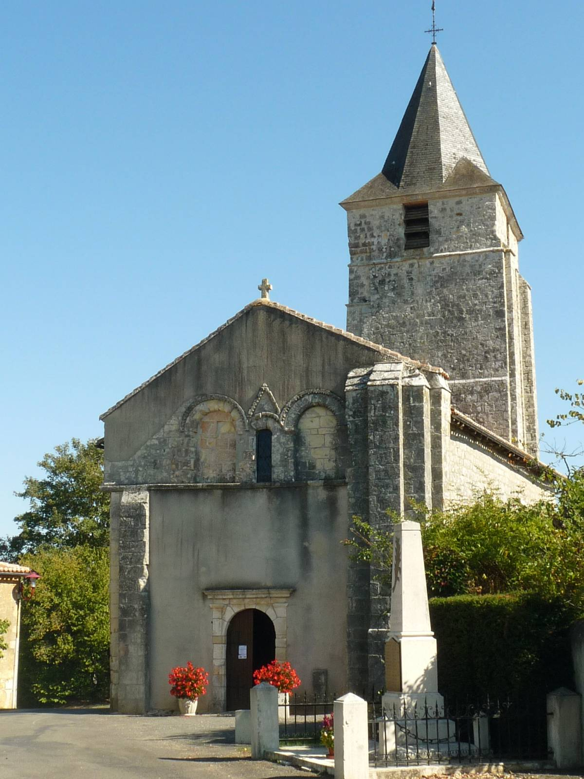 church